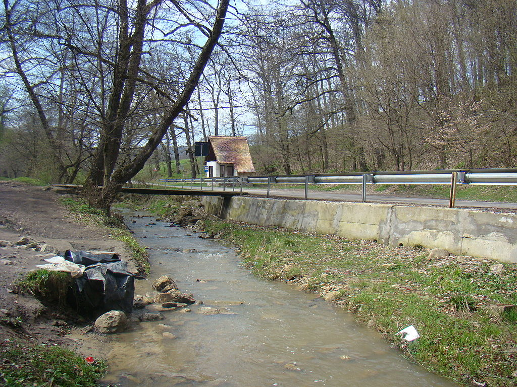 Debren River downstream from Sugas Bai, Covasna County, Romania